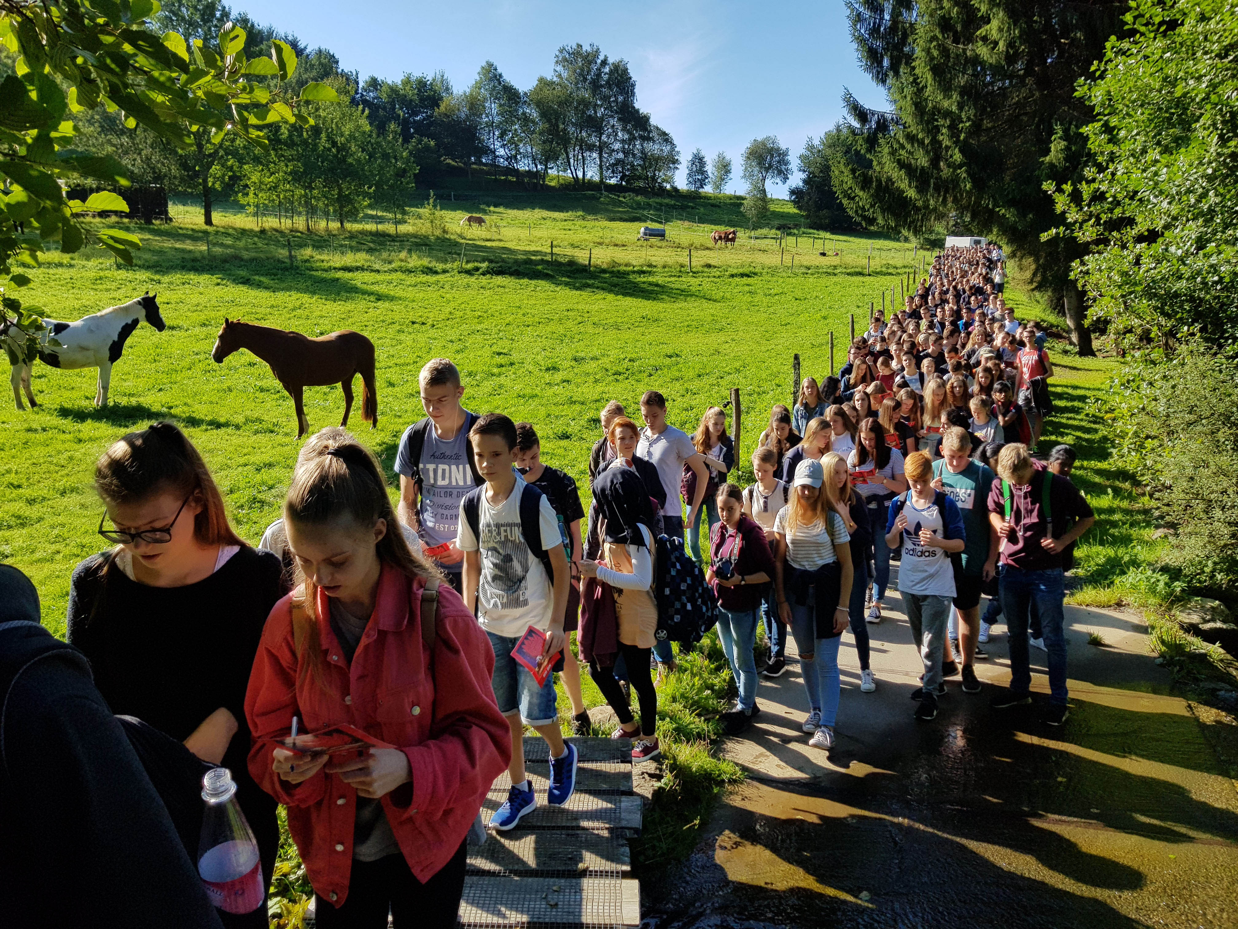 Wallfahrt der Oberstufe nach Marienstatt